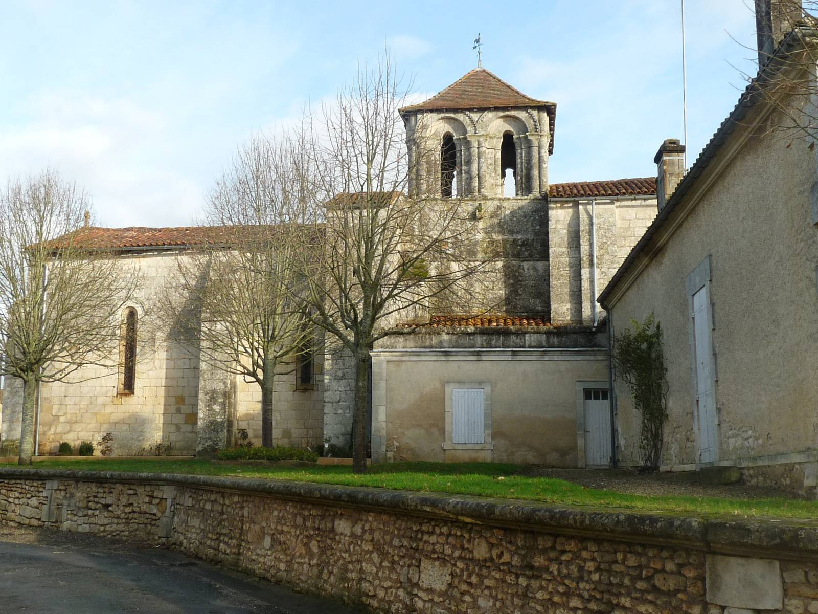 church of St-Brice, Charente, SW France